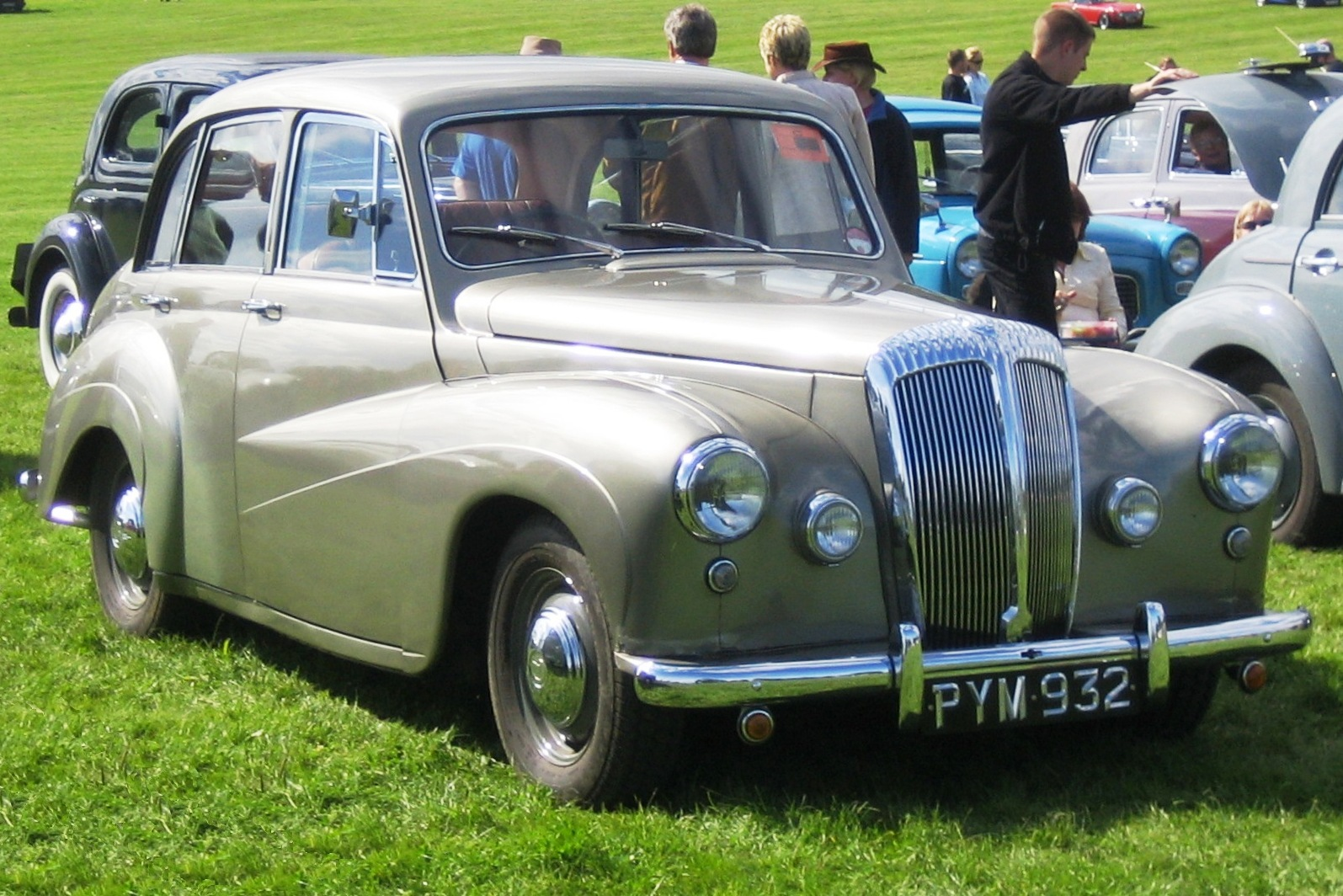 Daimler Conquest at Classic car Show at Knebworth